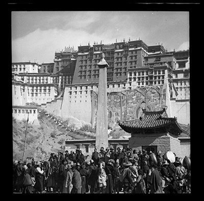 Part of the southern face of the Potala adorned with two appliquéd banners, Koku, (gos sku) for the Sertreng ceremony (tshogs mchod ser spreng) on the 30th day of the 2nd Tibetan month. The banners have images of the Buddha surrounded by deities and bodhisattvas. The Sho pillar can be seen in the foreground surrounded by onlookers watching the procession. Some monks holding hand held drums are processing.